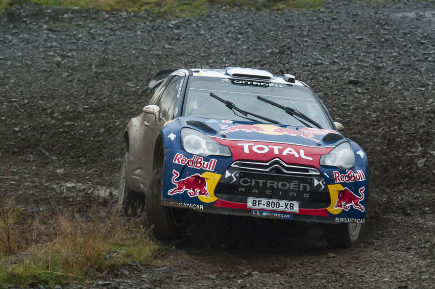 Wales Rally GB 2011 Aberllefenni,Citroen DS3 WRC,Citroen Total WRT,Corris Community,GBR,Gartheiniog 2,Großbritannien,Julien Ingrassia,Motorsport,Rally,Rallye,SS10,Sebastien Ogier,WP10,Wales,Wales Rally GB